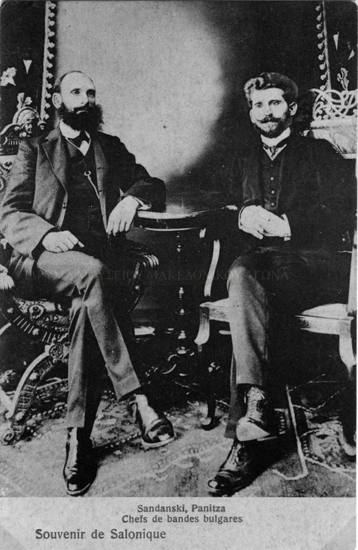 Ottoman postcard with Bulgarian revolutionaries Yane Sandanski and Todor Panitsa